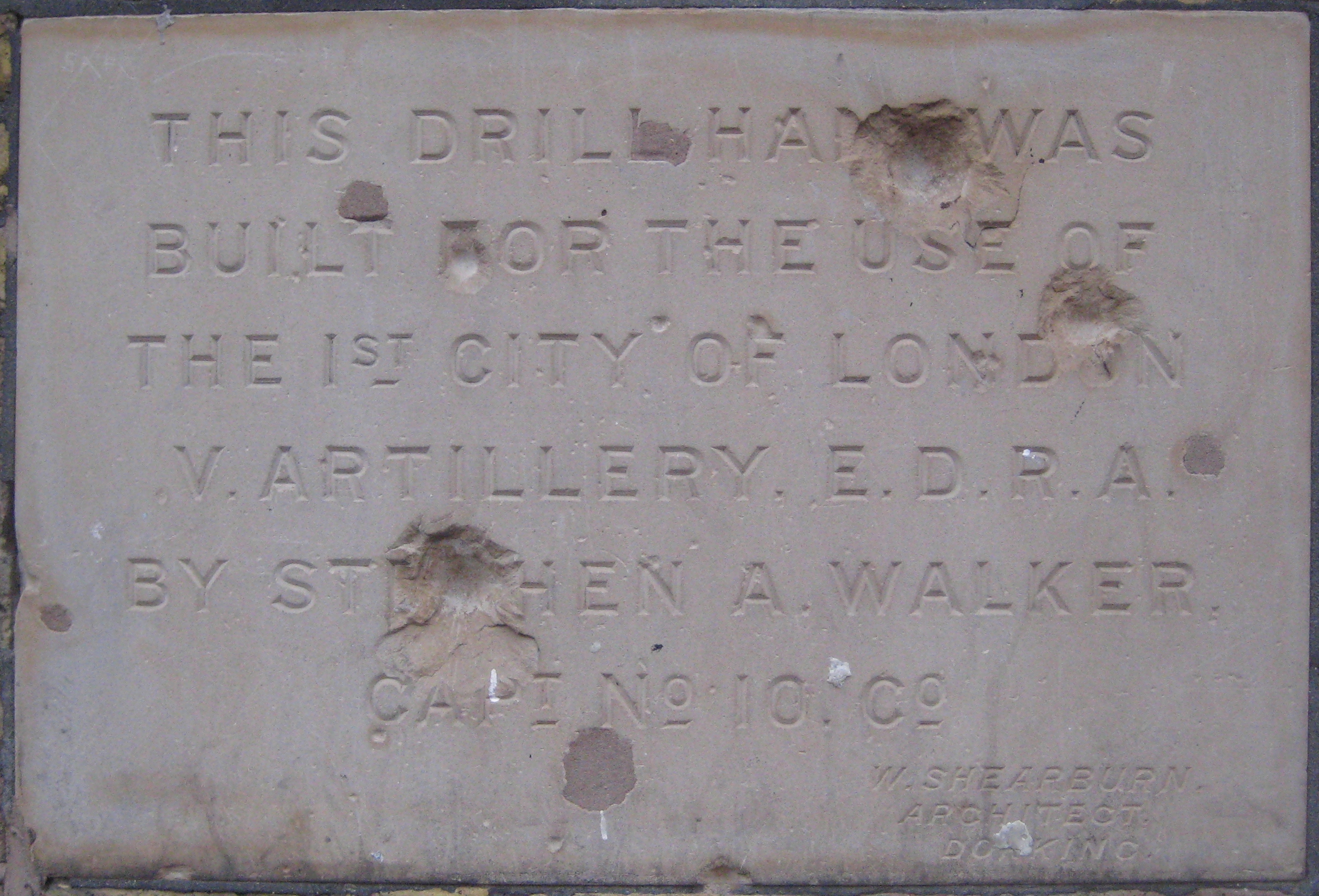 Foundation stone of a drill hall in Shepherds Bush, London, England, showing shrapnel damage sustained in an air raid during the Second World War. The building is now the Shepherds Bush Community Association Village Hall. (Address: 58 Bulwer Street, London, W12 8AP.)